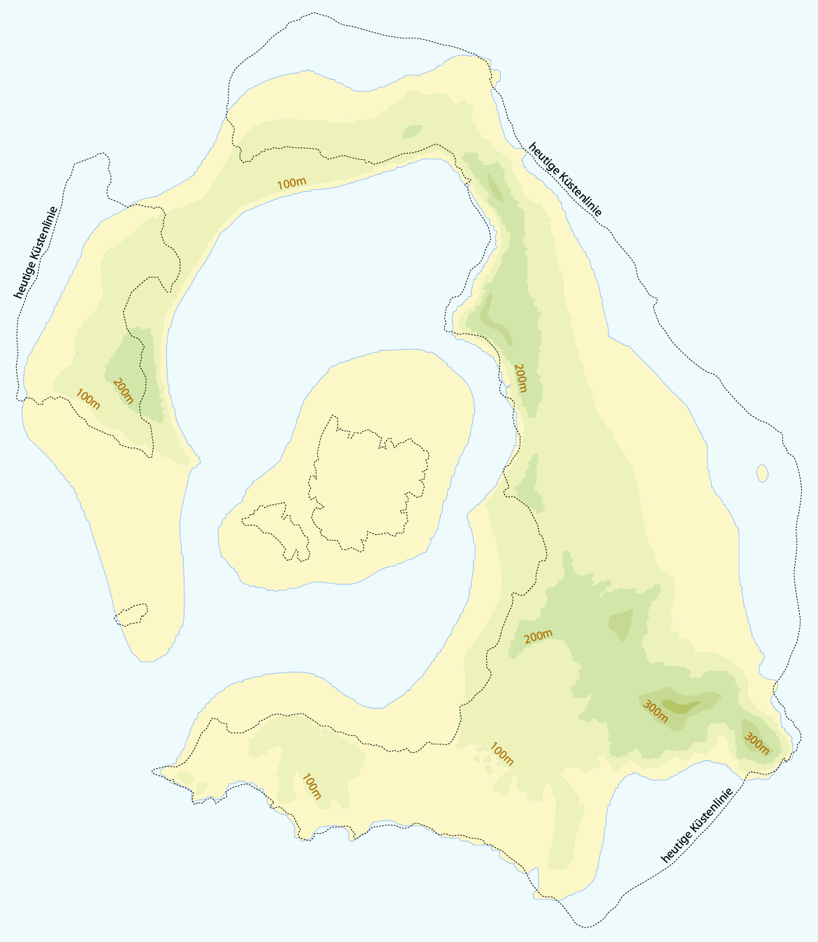 Map of Thera island before the Minoan eruption